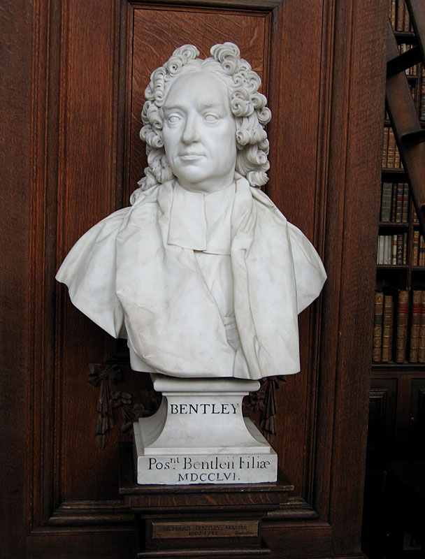 The bust is one of several that Roubiliac carved for Trinity College, Cambridge, commemorating masters of the college from the 16th and 17th century.